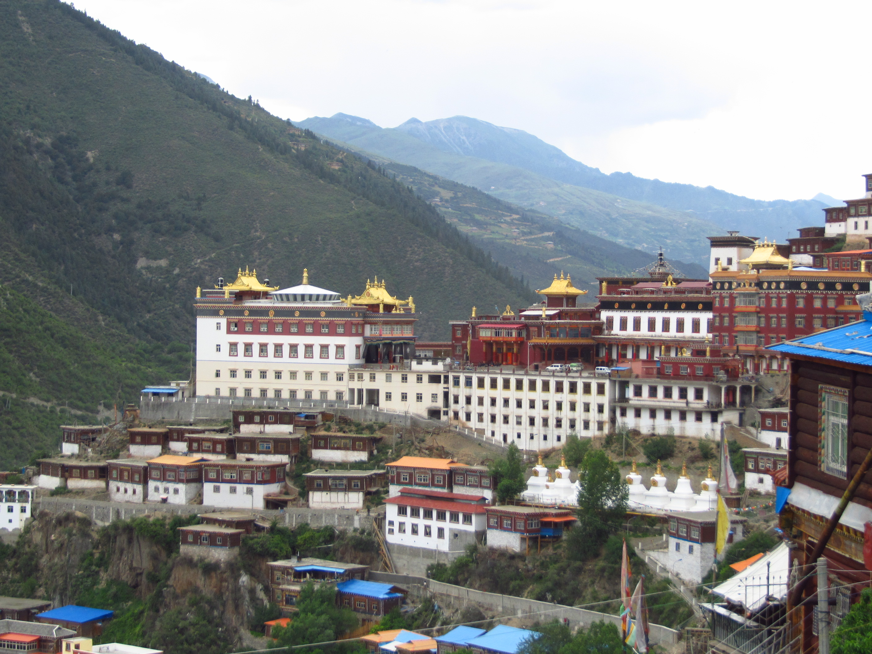 The lower part of Palyul Monastery